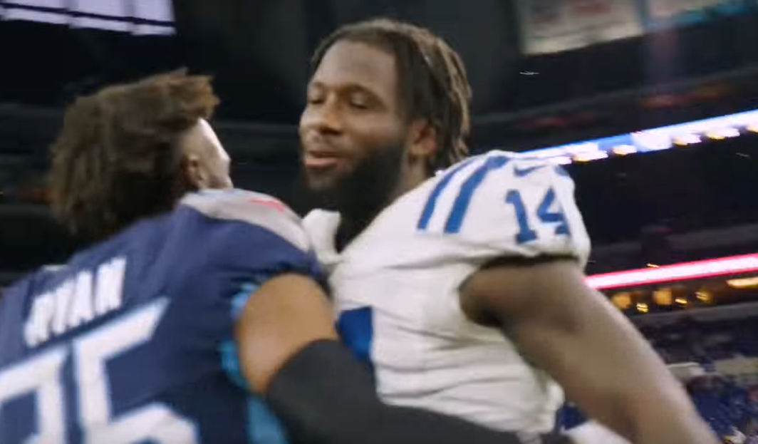 Zach Pascal 2019. Image from video Logan Ryan Mic'd Up vs. Colts (Week 13) | Tennessee Titans, ~ 03:08.